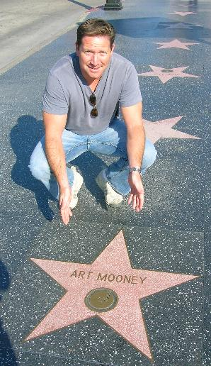 A picture of Art Mooney by fan, Matt Gilarde.